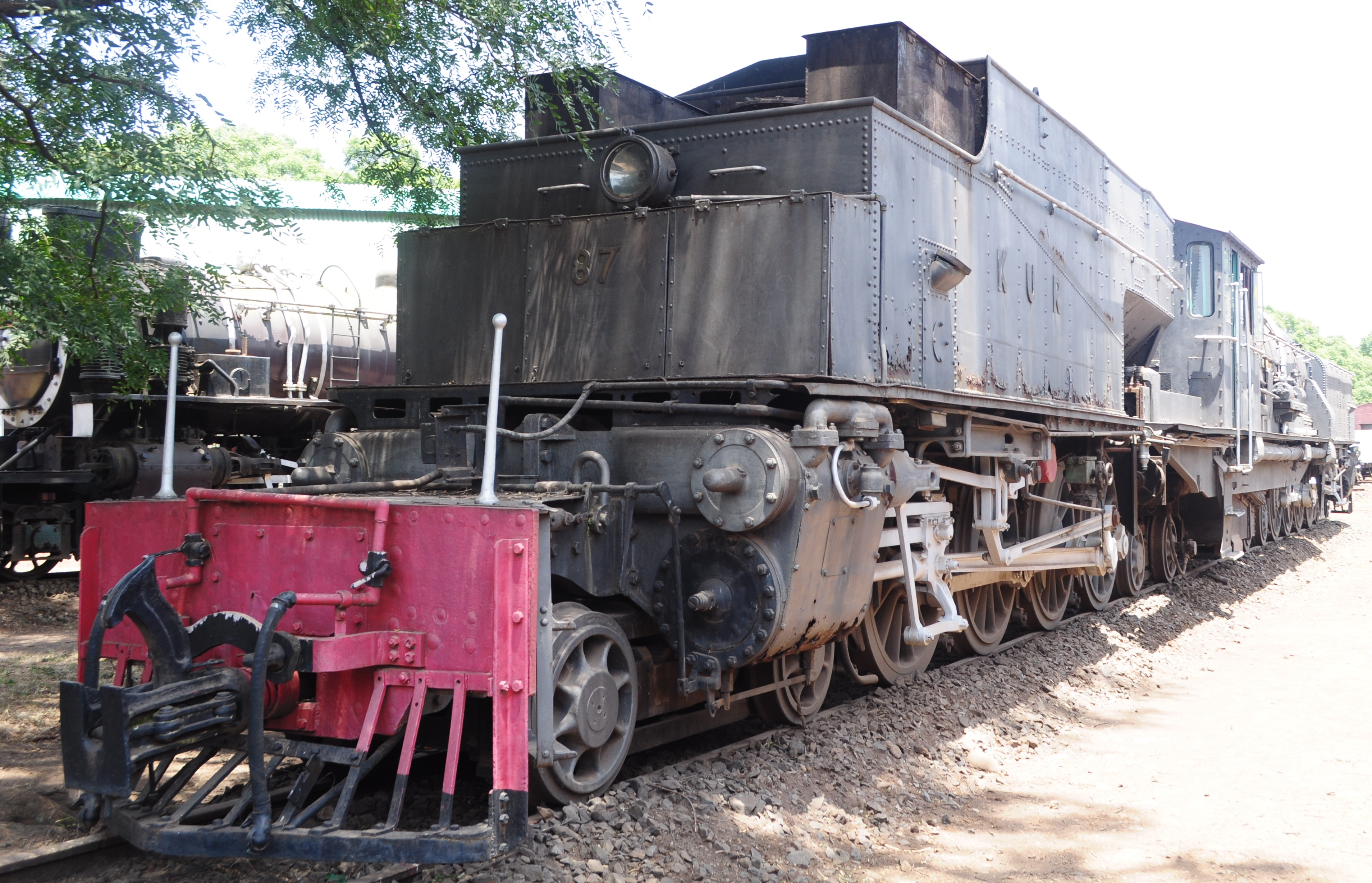 Karamoja one of the 12 members of the EC3 class were named after administrative districts of Kenya and Uganda.